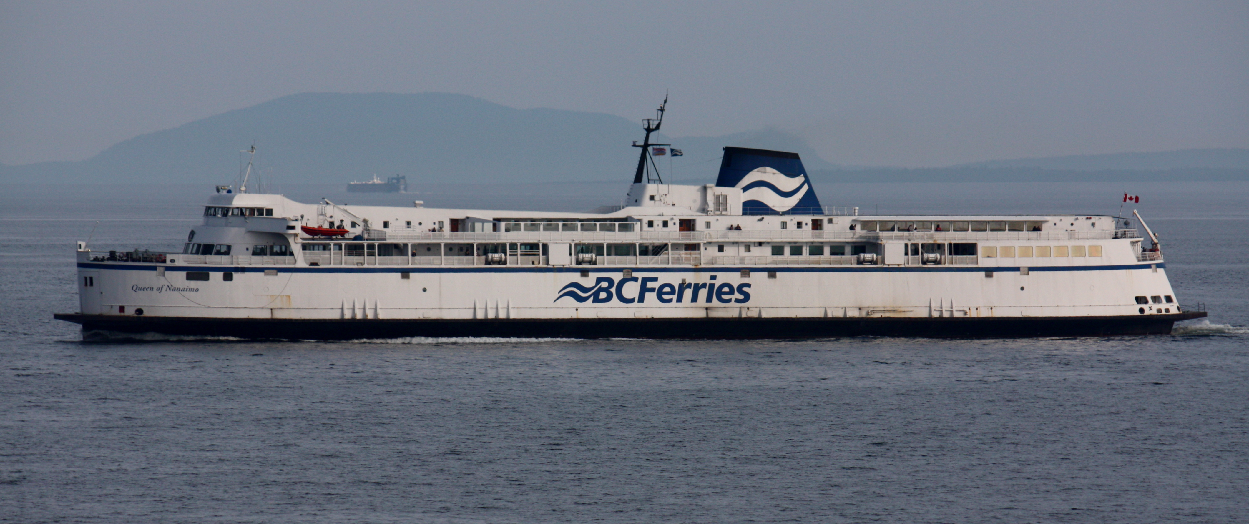 The BC Ferries vessel M/V Queen of Nanaimo, coming into Vancouver (Tsawwassen), British Columbia